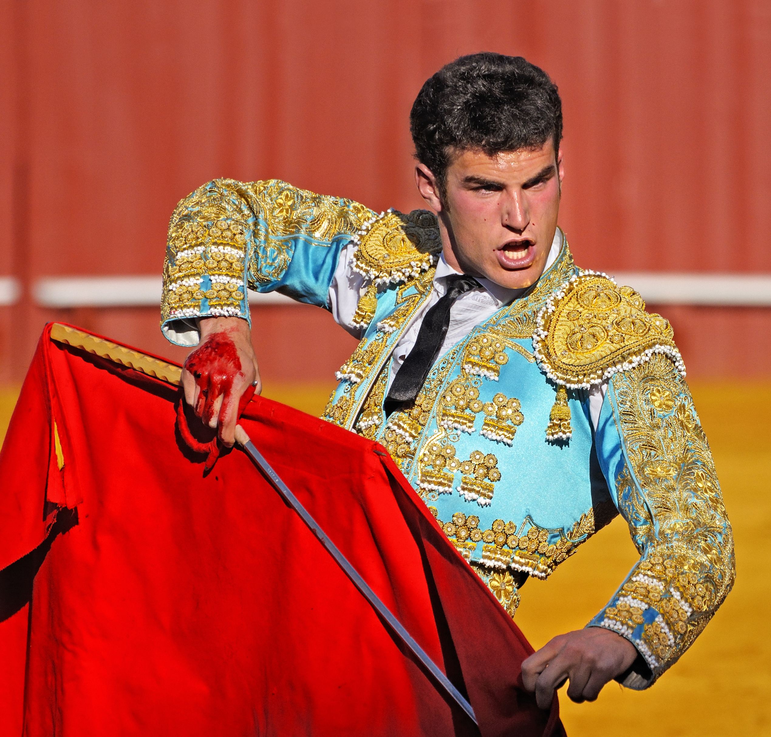 Matador (Bullfighter) in the Plaza de toros de la Real Maestranza de Caballería in Seville. 2013